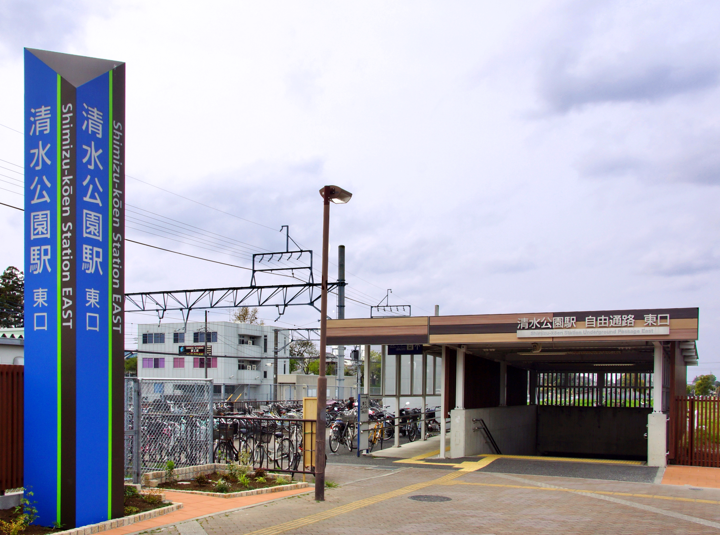 The east entrance to Shimizu-koen Station on the Tobu Urban Park Line